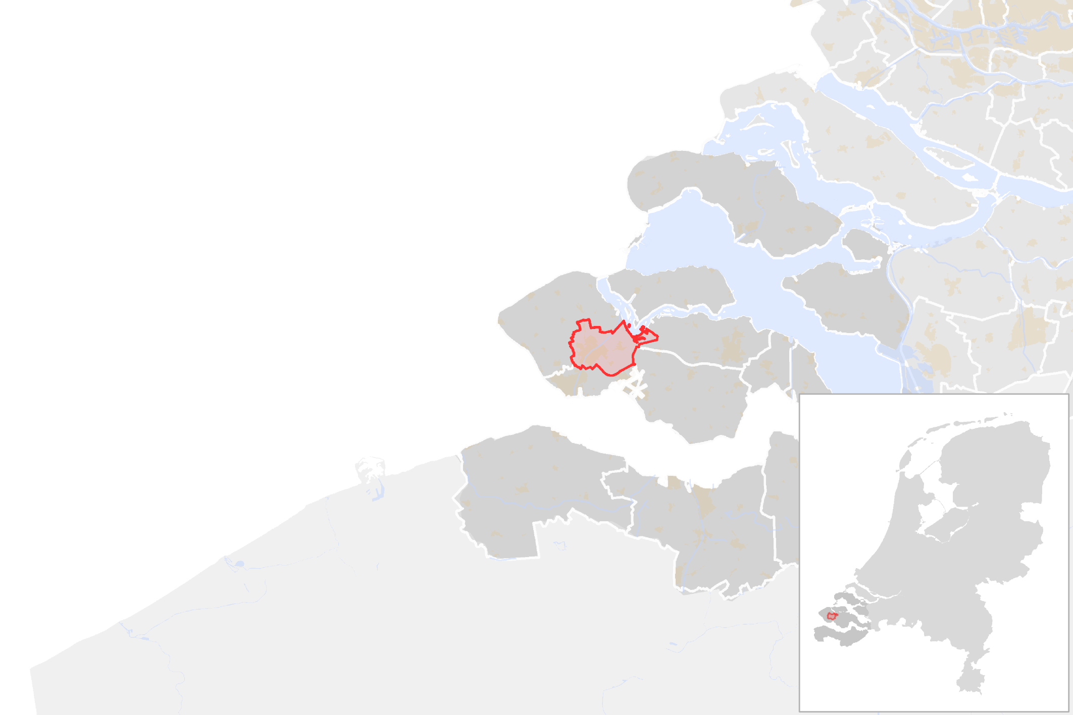 Locator map showing municipality boundary of one of the 390 Dutch municipalities (as of 2016)